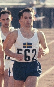 Athletes compete in the Men's 800m Semi-final at the National Stadium during the Tokyo Olympic on October 15, 1964 in Tokyo, Japan: Stig Lindback